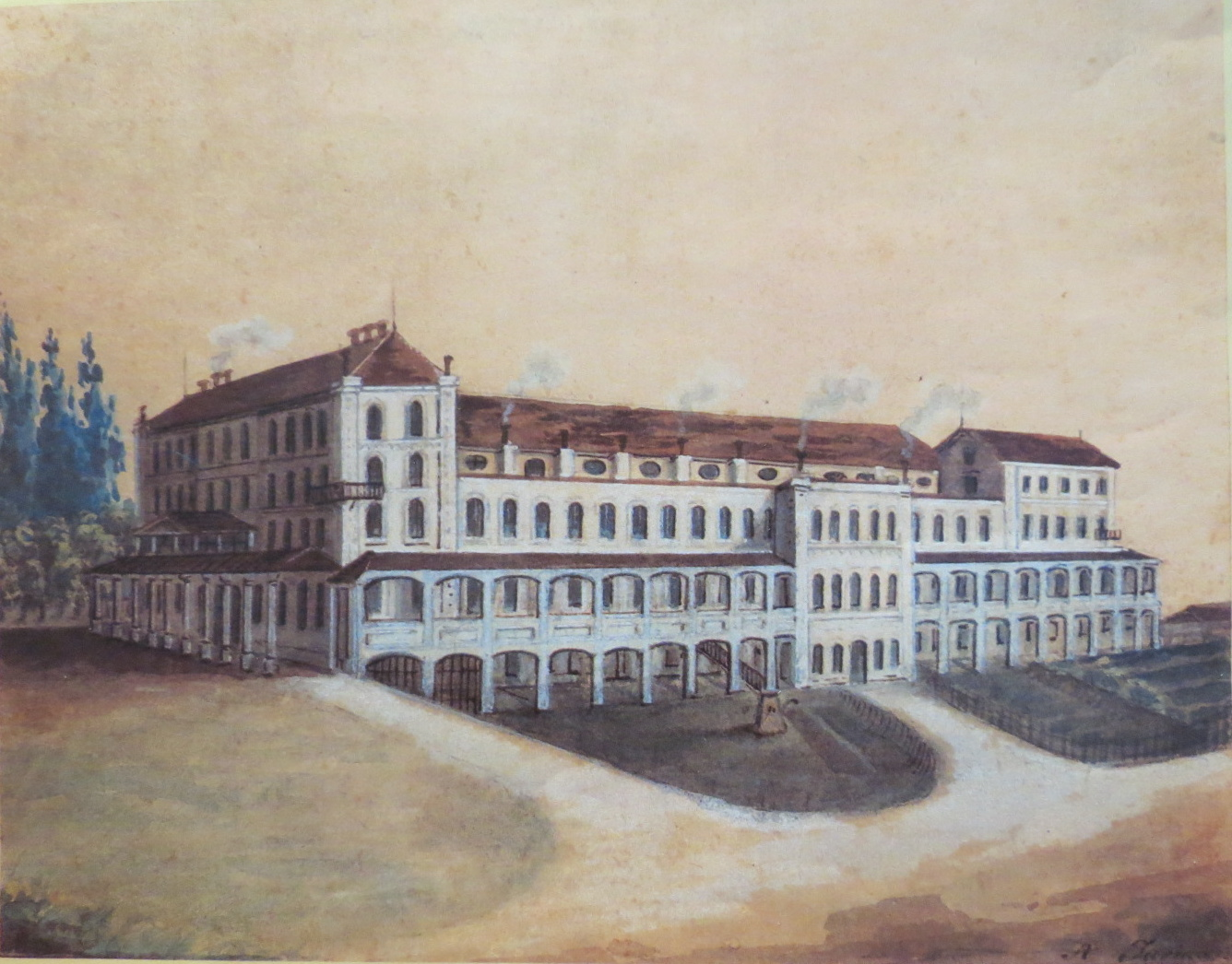 Kolizej in Ljubljana in middle of the 19th century.